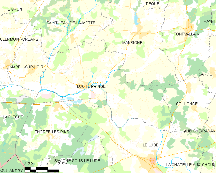 Map of French municipality